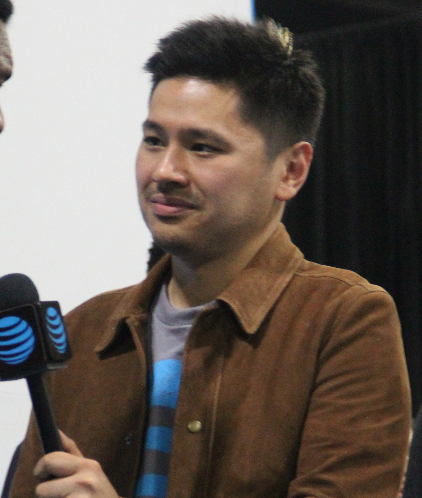 Herschel Walker being interviewed, with Greg McElroy in the background